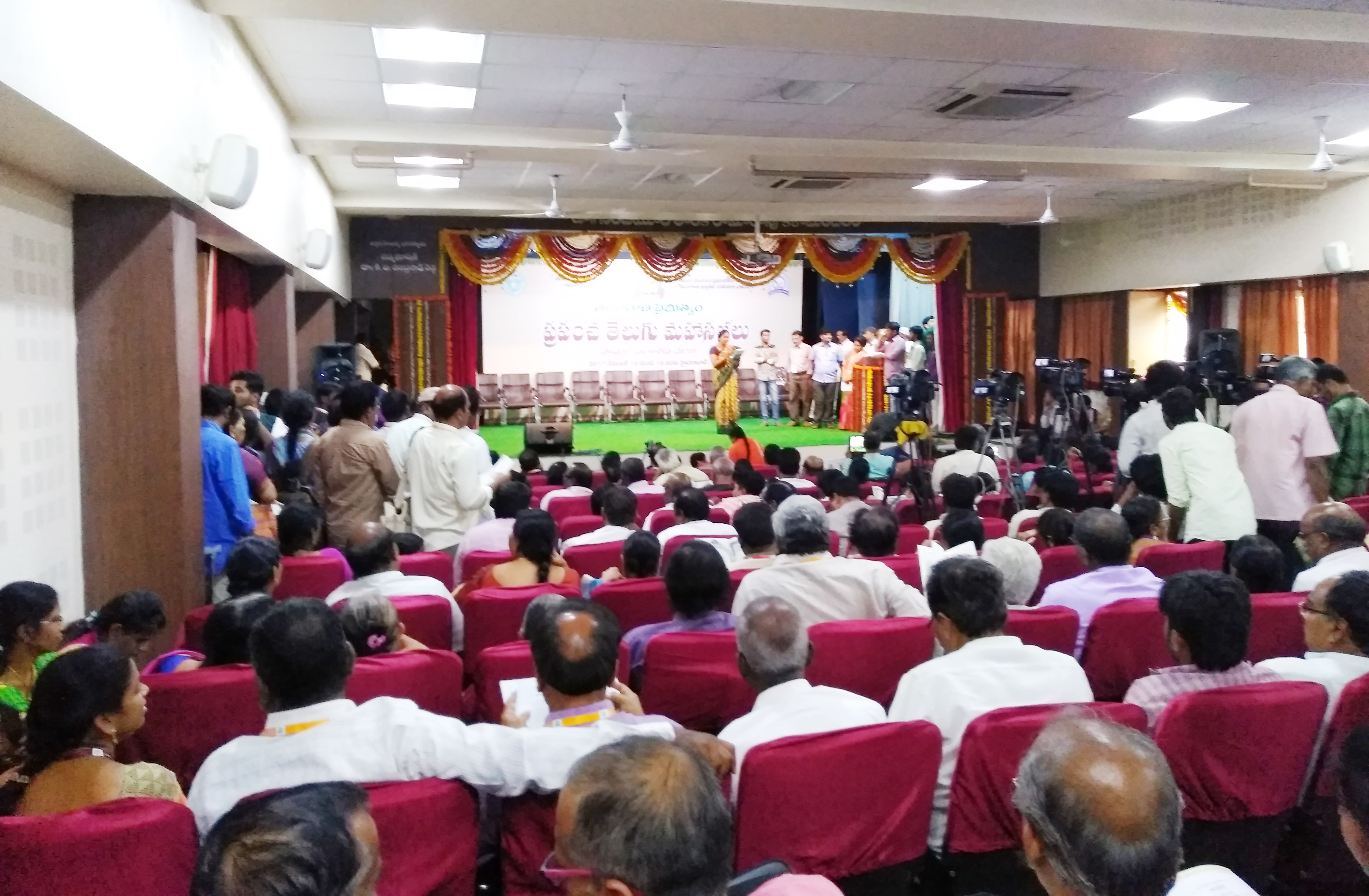 తెలుగు ప్రపంచ మహాసభల వద్ద దృశ్యాలు,వ్యక్తులు,సమావేశాలు